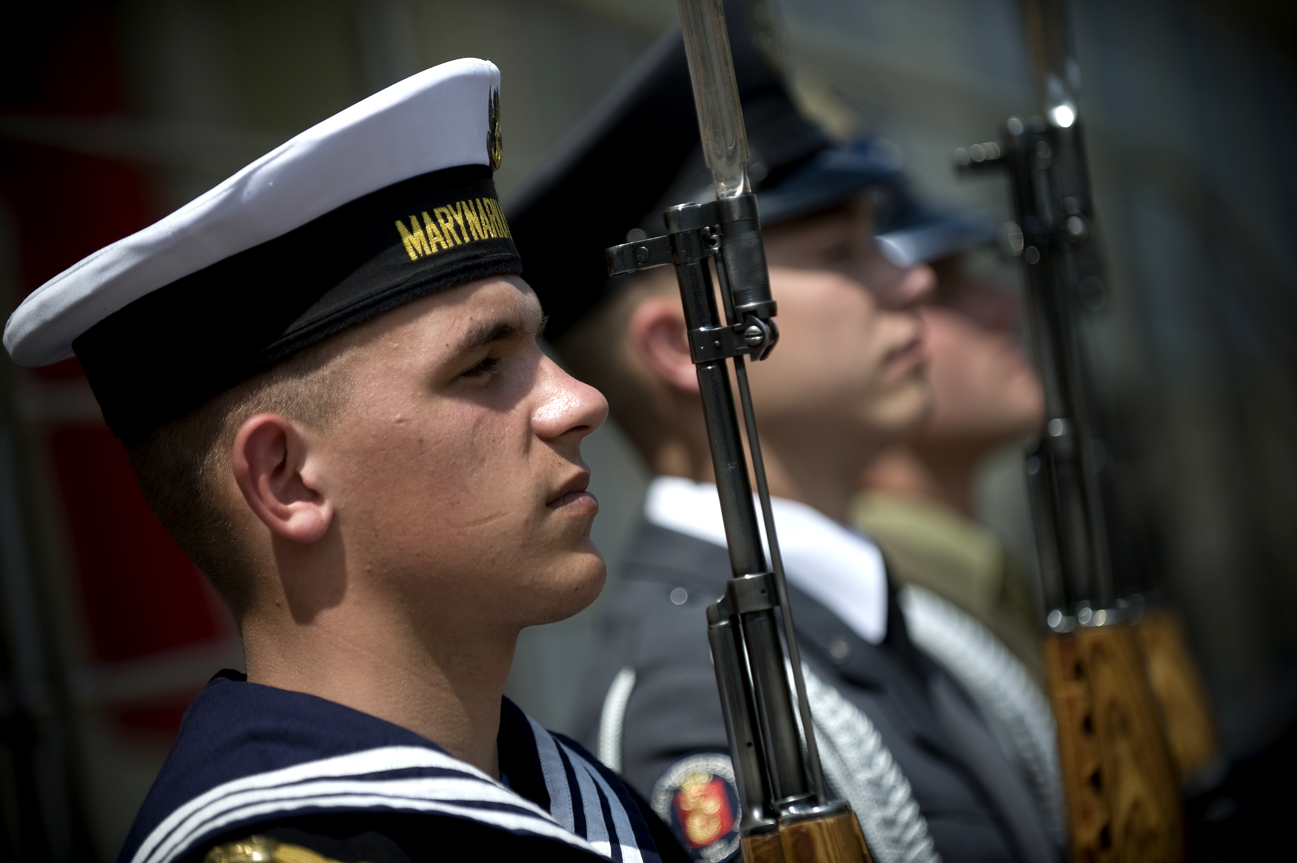 U.S. Navy Adm. Mike Mullen, chairman of the Joint Chiefs of Staff, is welcomed to Warsaw, Poland, with a full-honors ceremony, June 29, 2009.